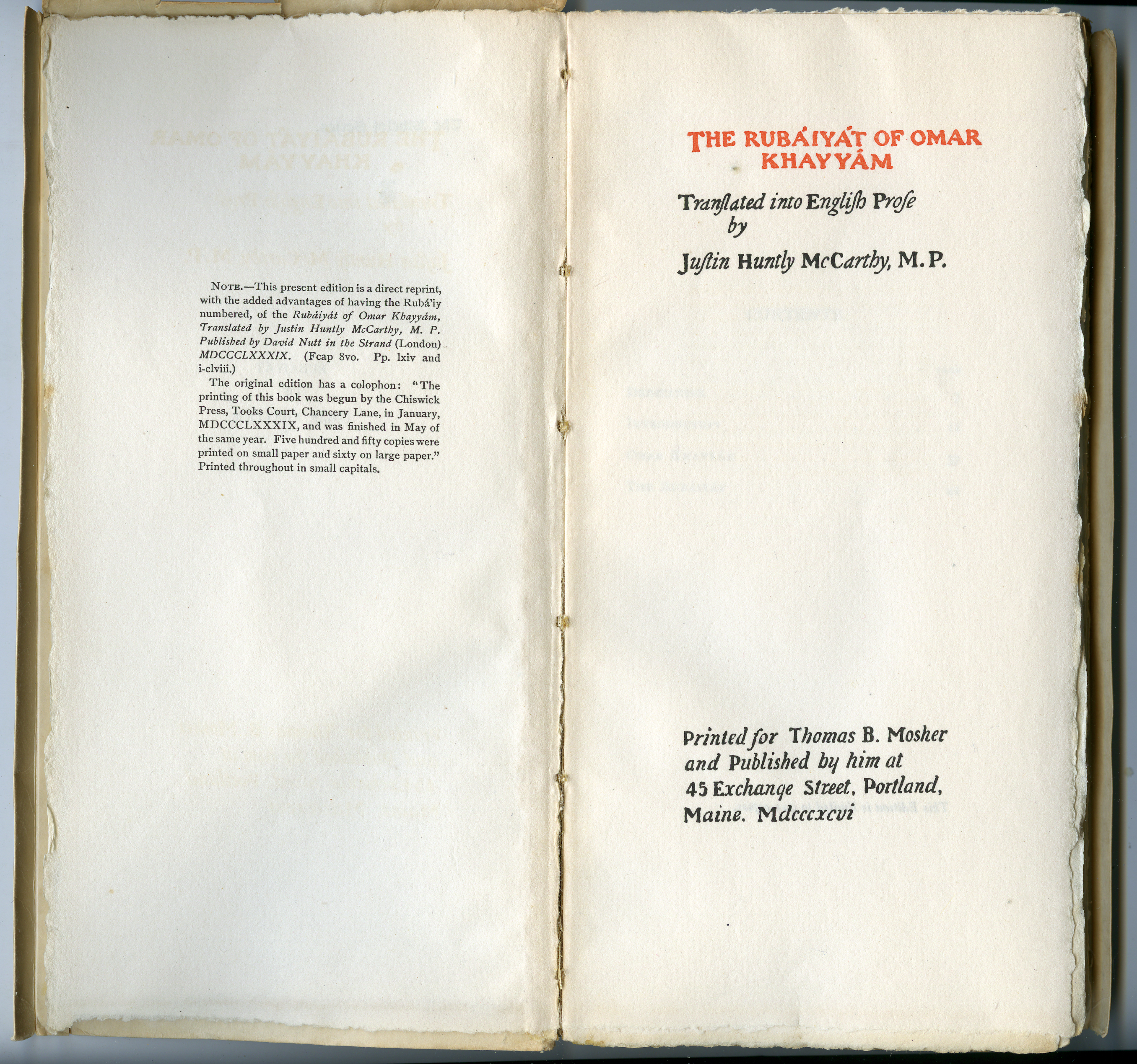 Title-page of the "Rubaiyat of Omar Khayyam" printed by Thomas Mosher in 1896.